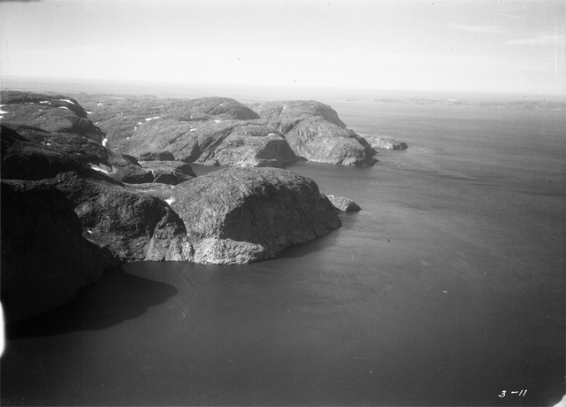 Fig. 135 - Looking northwest from over Cape Chidley; the Button Islands are seen in the far distance at the right. Note the absence of cirque cutting in this extreme northernmost region. Aug. 7, 1935